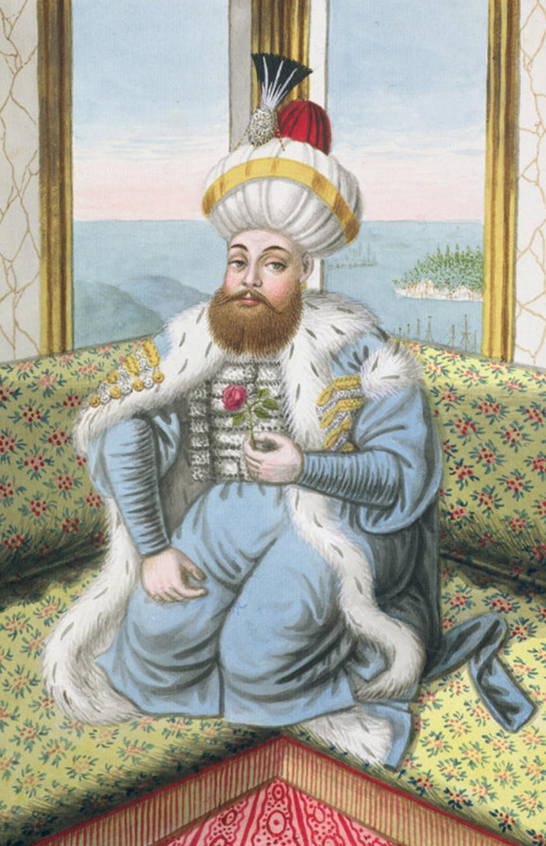 Portrait of Mehmed II, Sultan of the Ottoman Empire (1444-1446; 1451-1481). The portrait has been printed using the Giclée process.